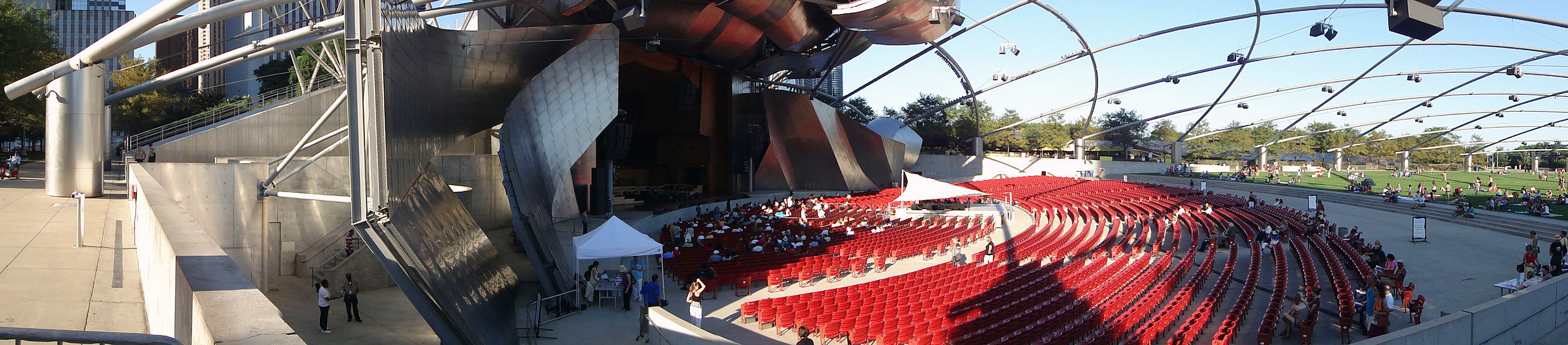 Panoramic shot of the Jay Pritzker Pavilion, viewed from the stage to the garden seating area.